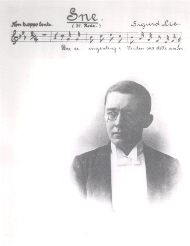 Artist: unknown Date/place: unknown Subject: Sigurd Lie Medium: photographic positive, B&W Notes: Norwegian composer. A line of notes to his most famous song "Sne" (snow), on top of the photo. Persistent URL: 'Original belongs to University of Bergen Original reference: ubbf010